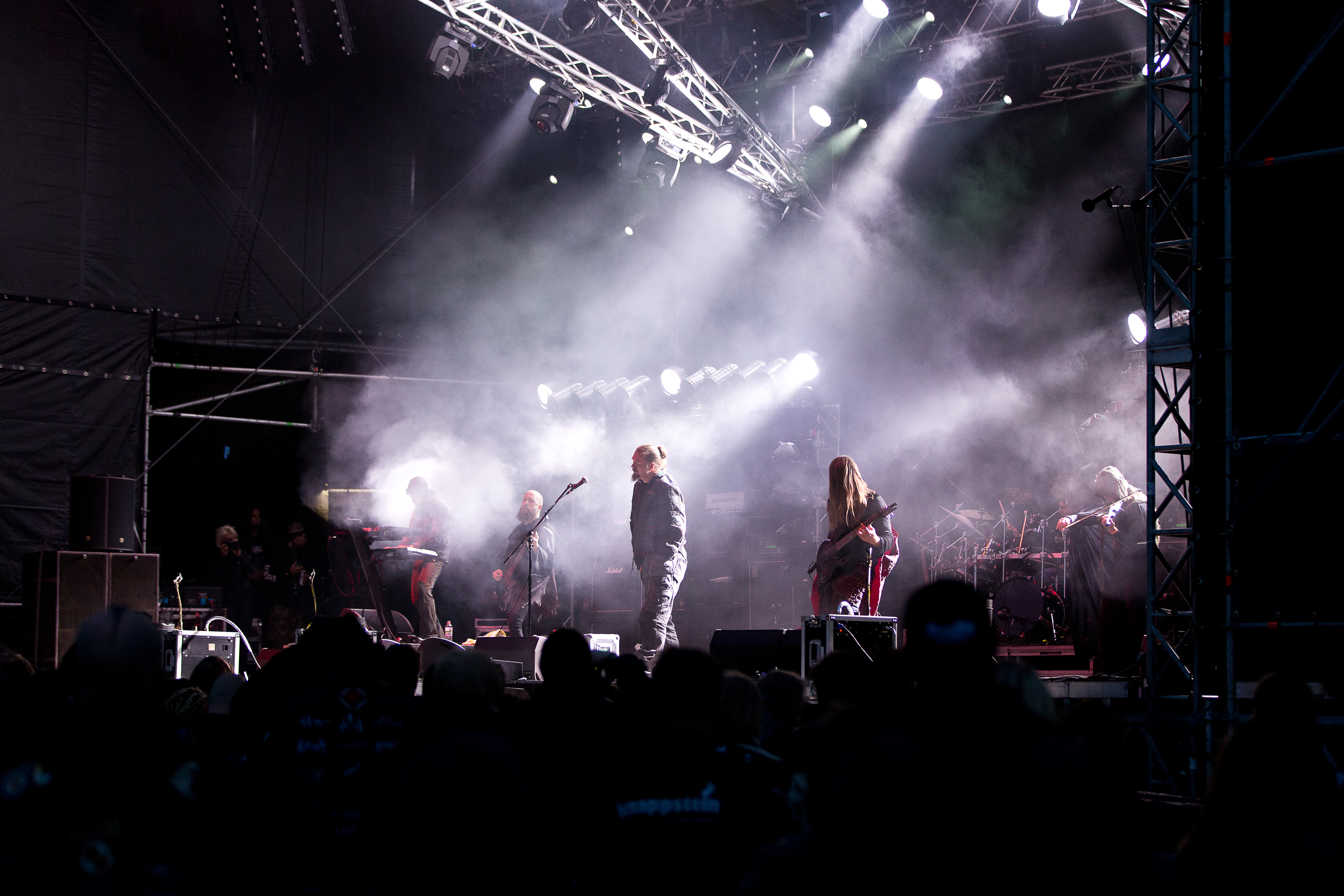 The Norwegian black metal band Arcturus at the Party.San Metal Open Air 2016 in Obermehler-Schlotheim/Germany